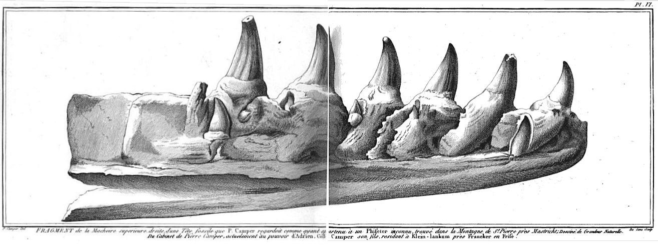 The Bottom jaw of the Mosasaurus discovered in Mount St. Peter, Maastricht, according to Petrus Camper